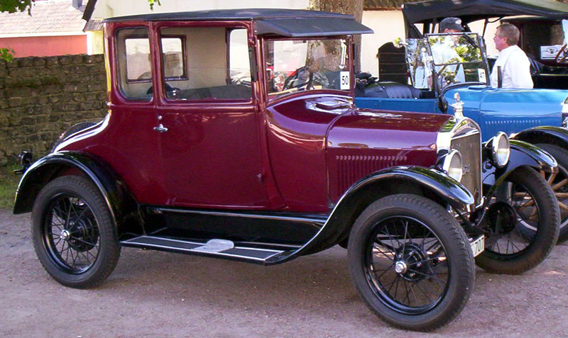 Ford Model T Coupé 1926